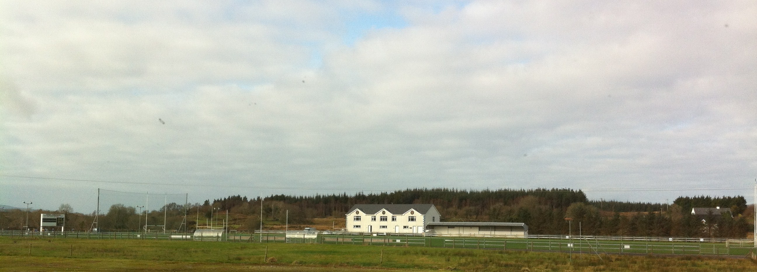 Picture taken February 2012 of Davy Brennan Memorial Park, Glenties